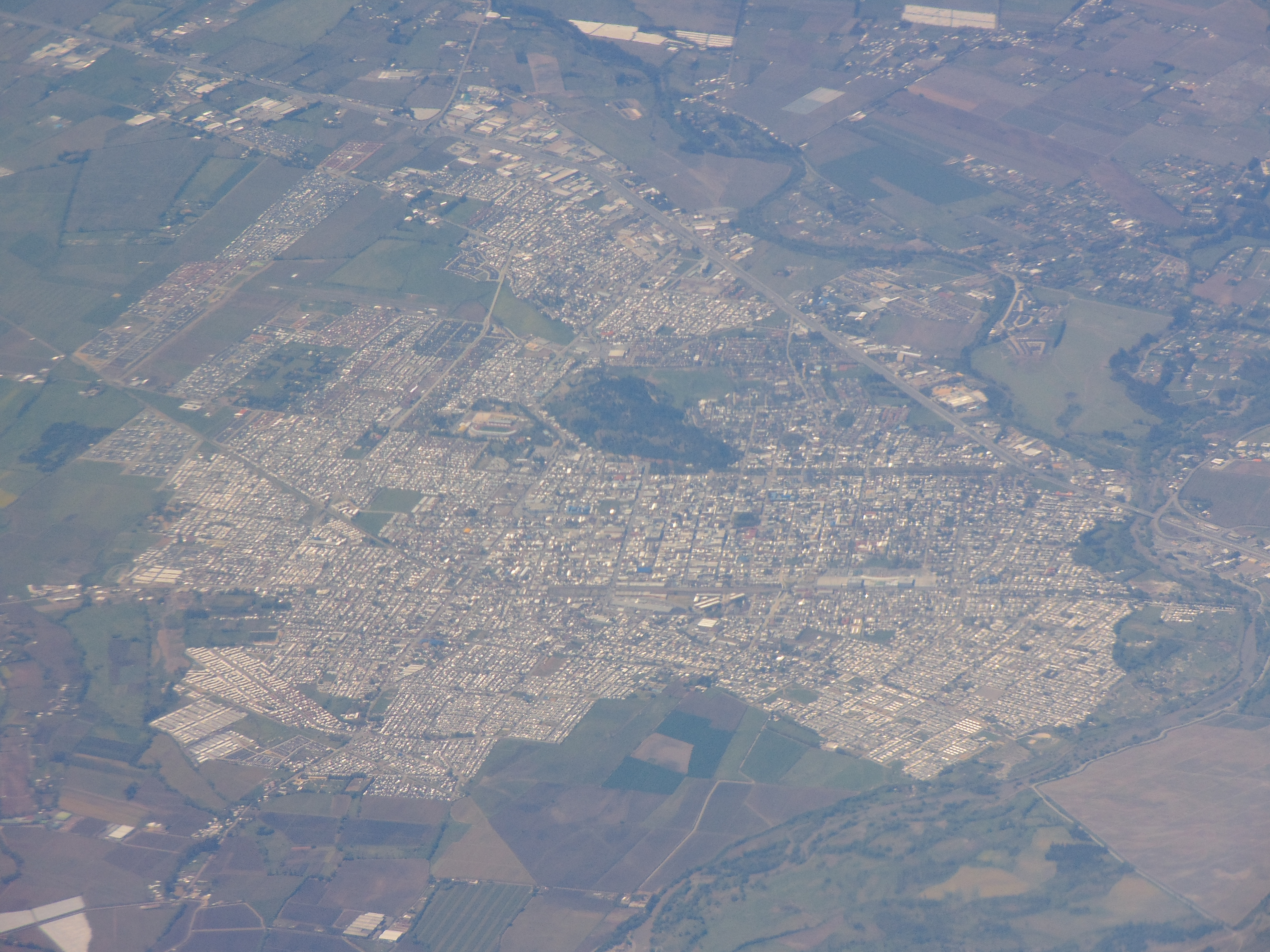 Curico seen from 40000 ft (10000 m) aprox. flight from west